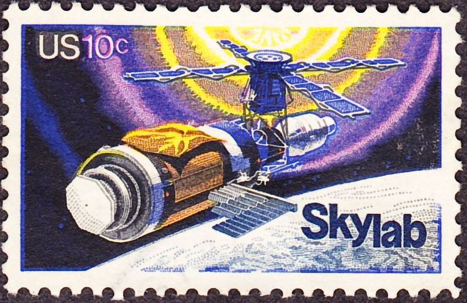 U.S. postage stamp: 1974 issue, 10 cents, SkyLab commemorative issue